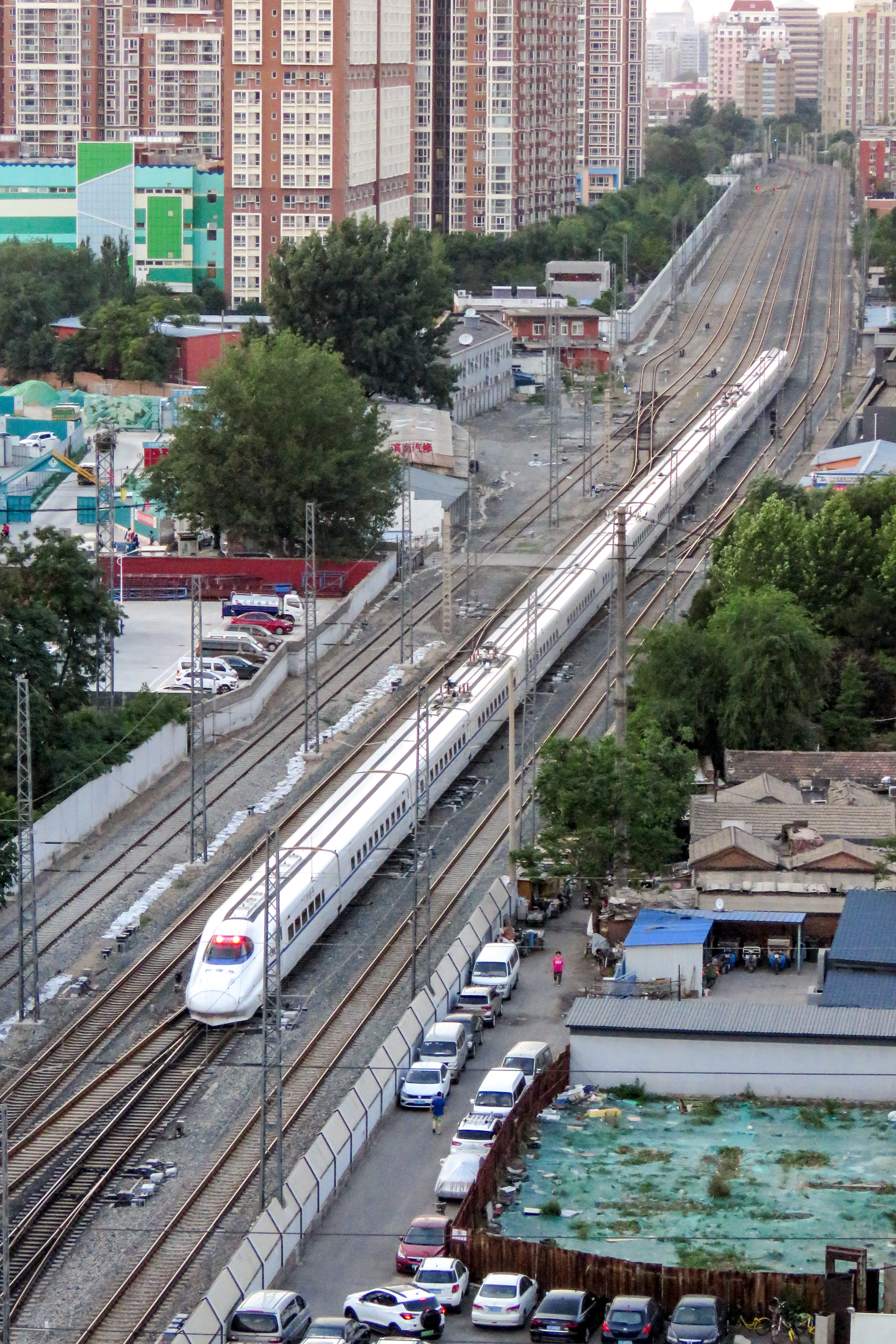 Possibly 0D902.